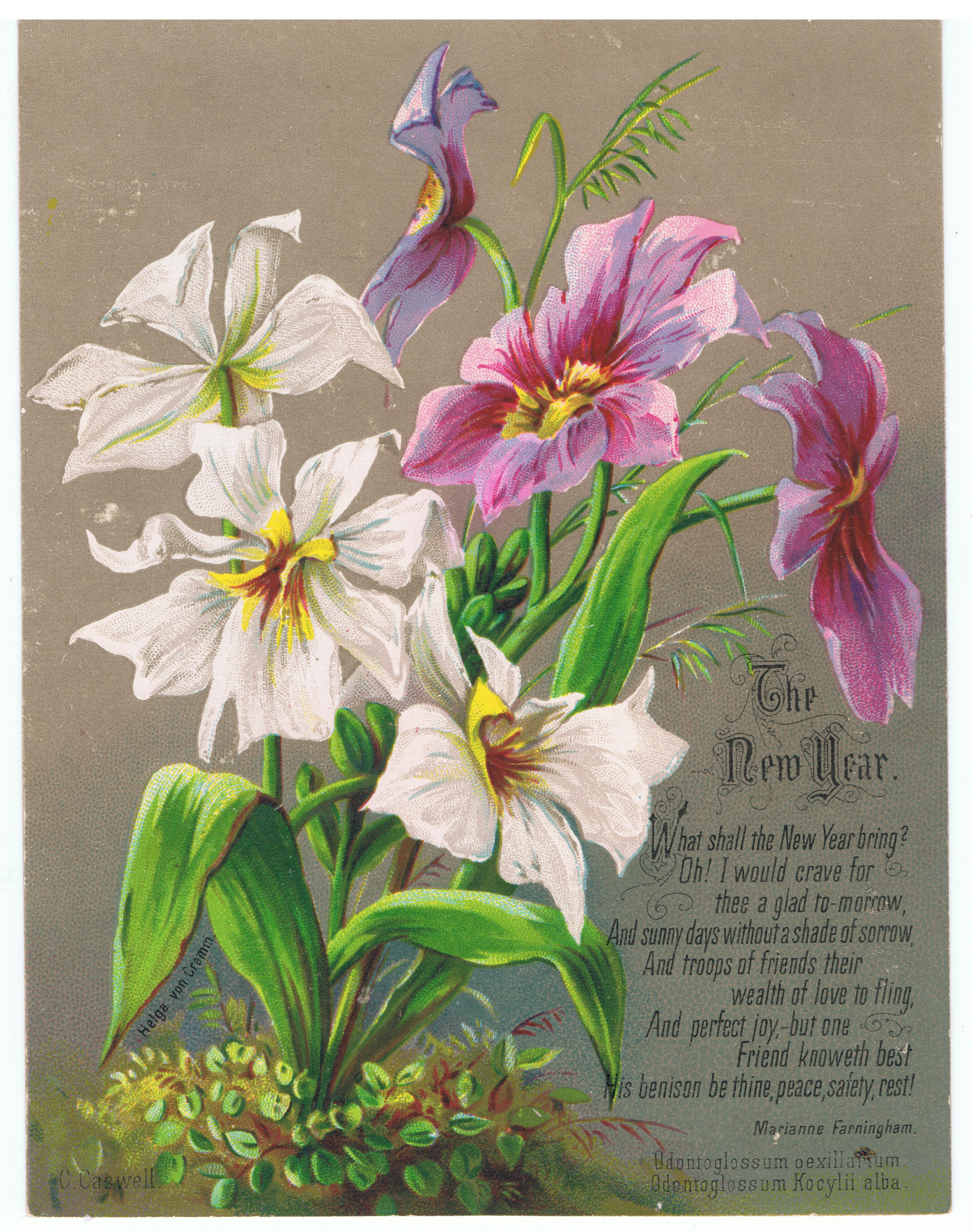 Scan (by me, R. de Salis, Rodolph (talk) 23:27, 16 January 2015 (UTC)) of The New Year, Odontoglossum, chromolithograph, by Helga von Cramm, with prayer by Marianne Farningham. (4.25 x 5.5 inches).